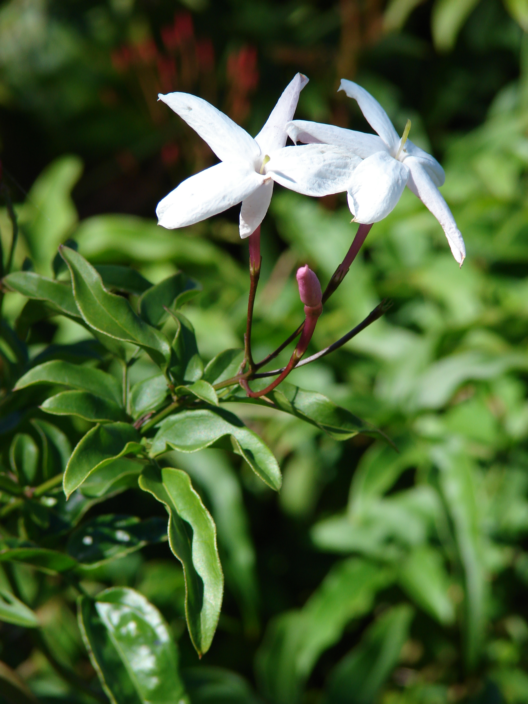 Jasminum polyanthum (leaves and flowers). Location: Maui, Enchanting Floral Gardens of Kula